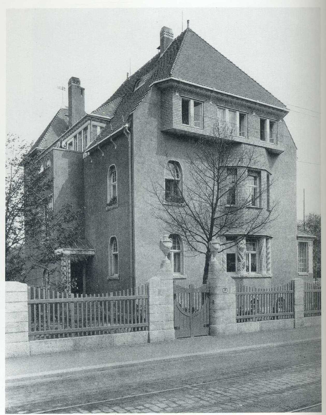 Schilling u. Graebner Emser Allee. 38 Villa Doehn Dresden; home of Bruno Doehn, ref. address book of Dresden, 1904